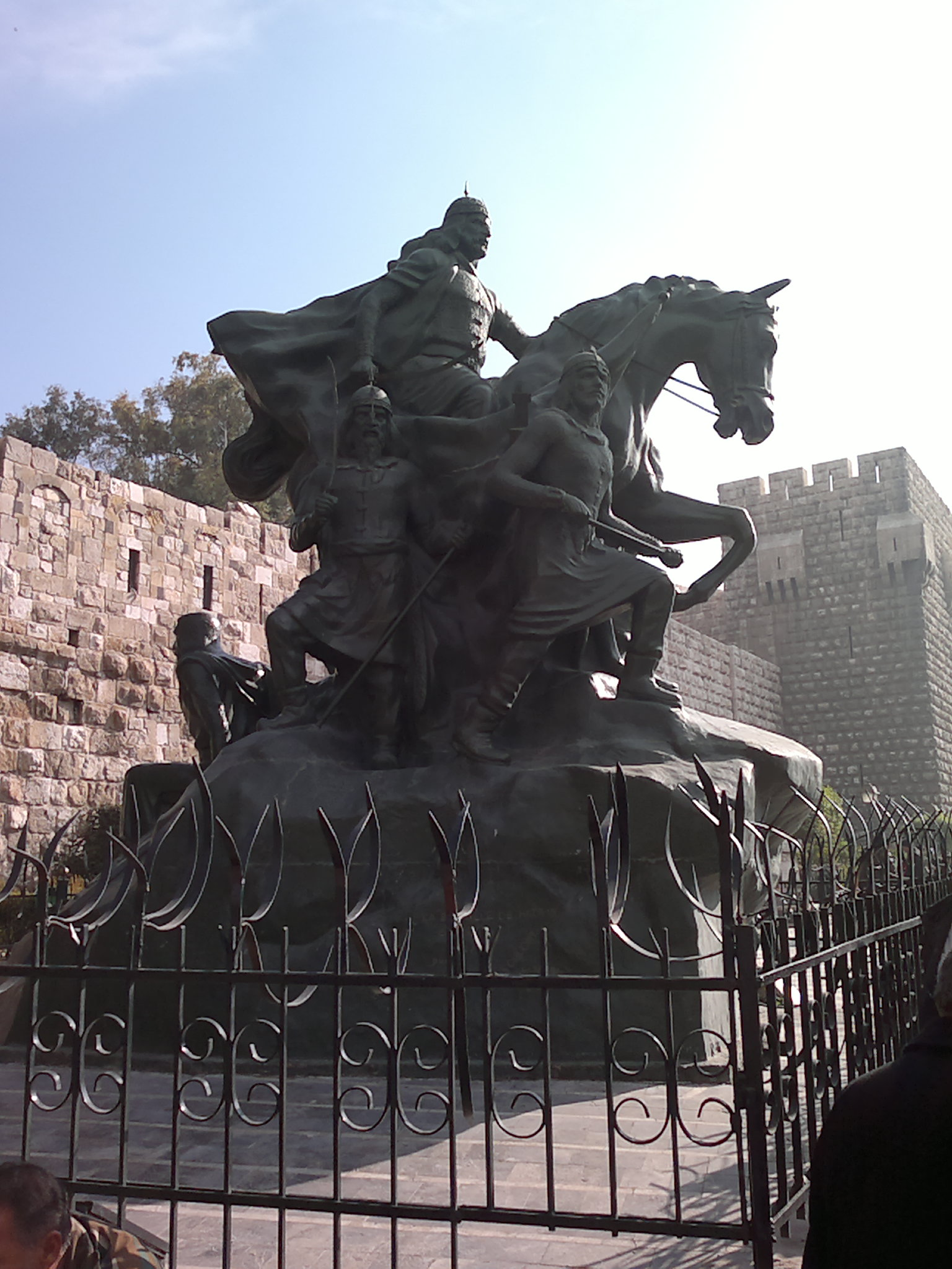 Saladine statue in front of Damascus Citadel at Old Damascus, Syria.